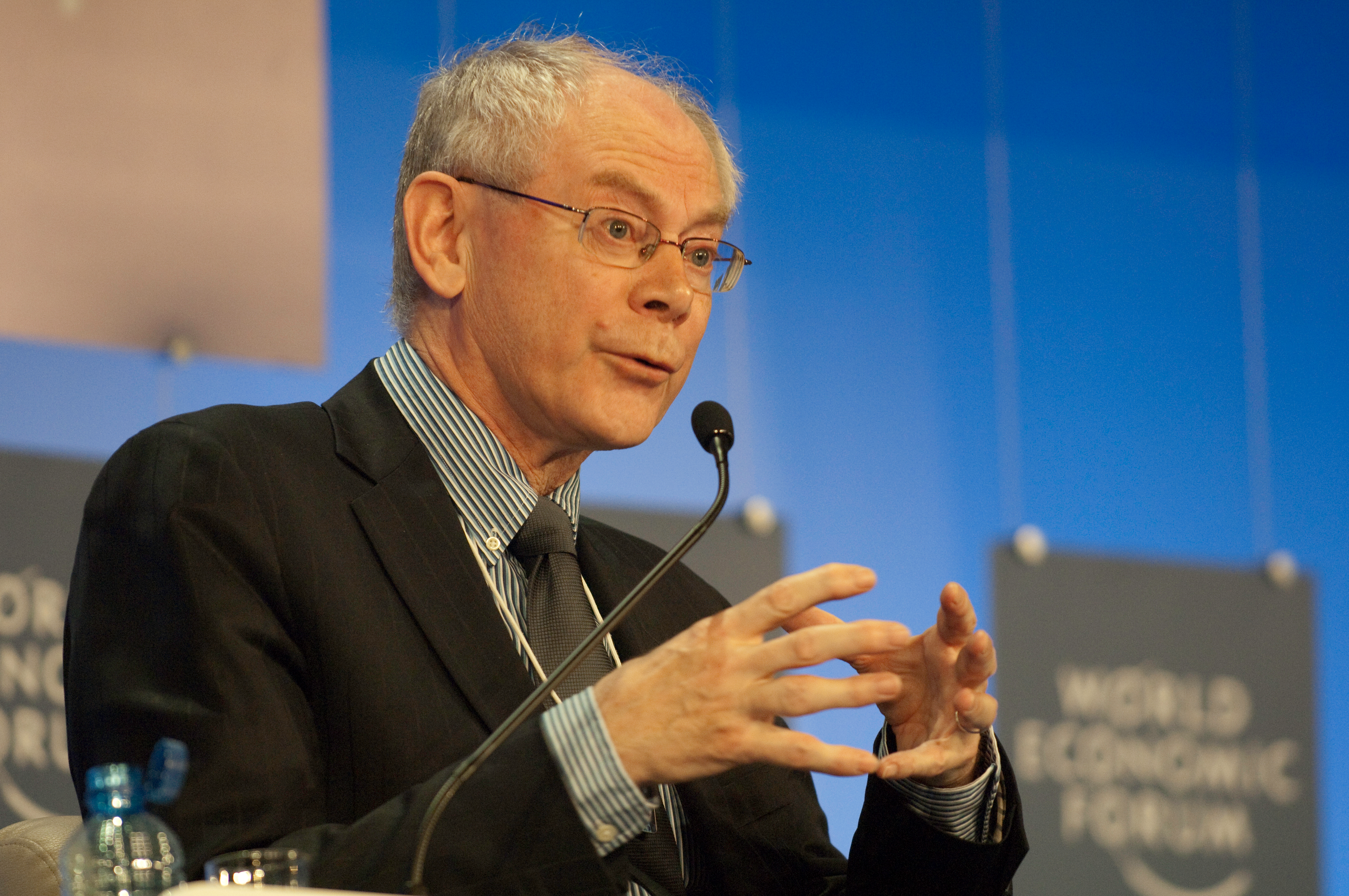 BRUSSELS/BELGIUM, 10 MAY 2010 - Herman Van Rompuy (President, European Council of the European Union) captured at the World Economic Forum on Europe held in Brussels, Belgium, May 10, 2010.